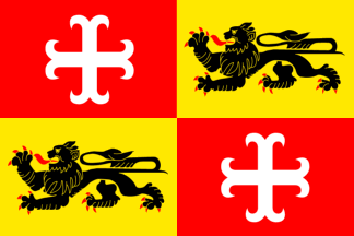 Flag of Aalter Municipality, in Belgium (East Flanders).